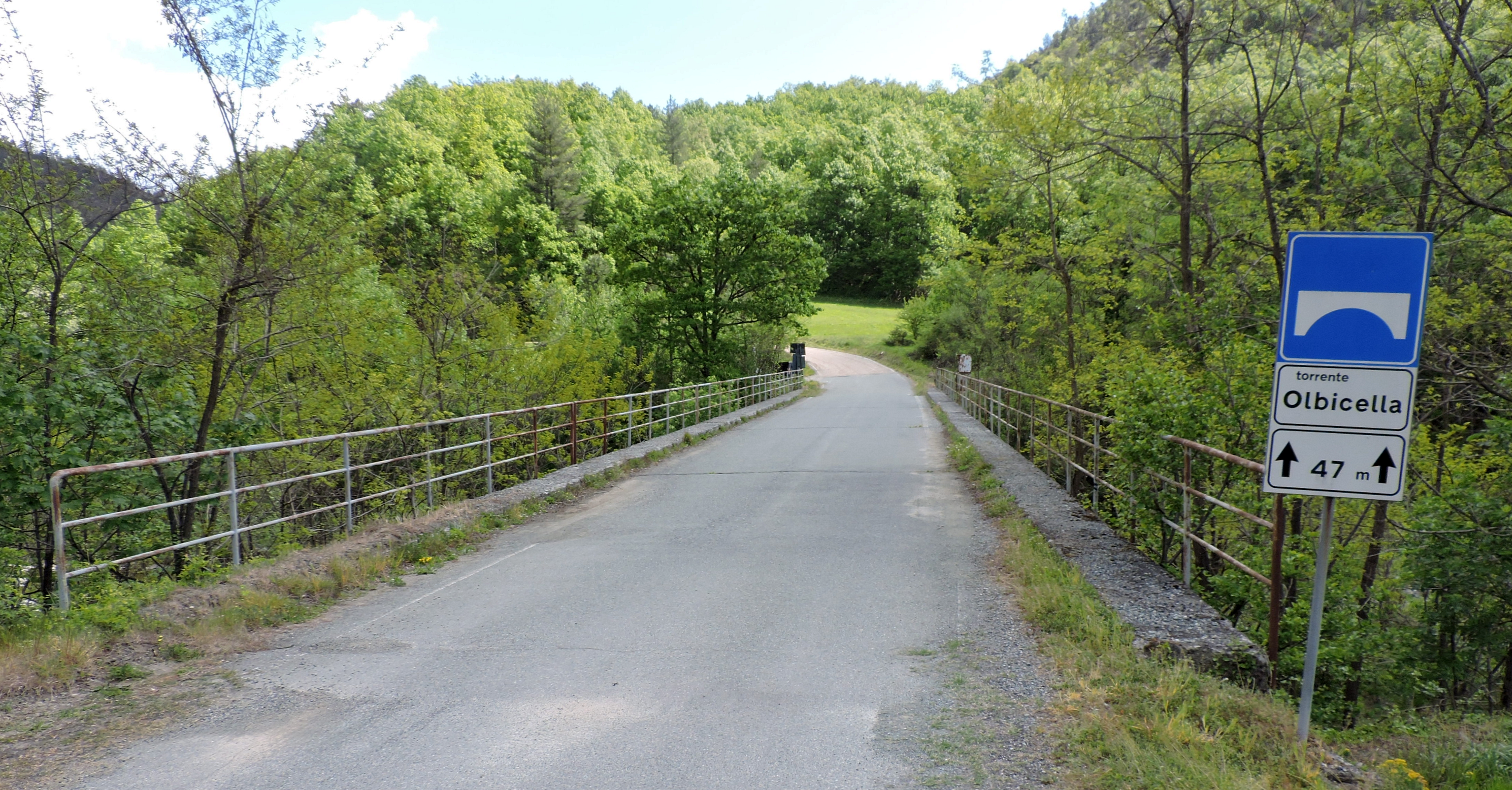 Torrente Olbicella: bridge near the village of Olbicella